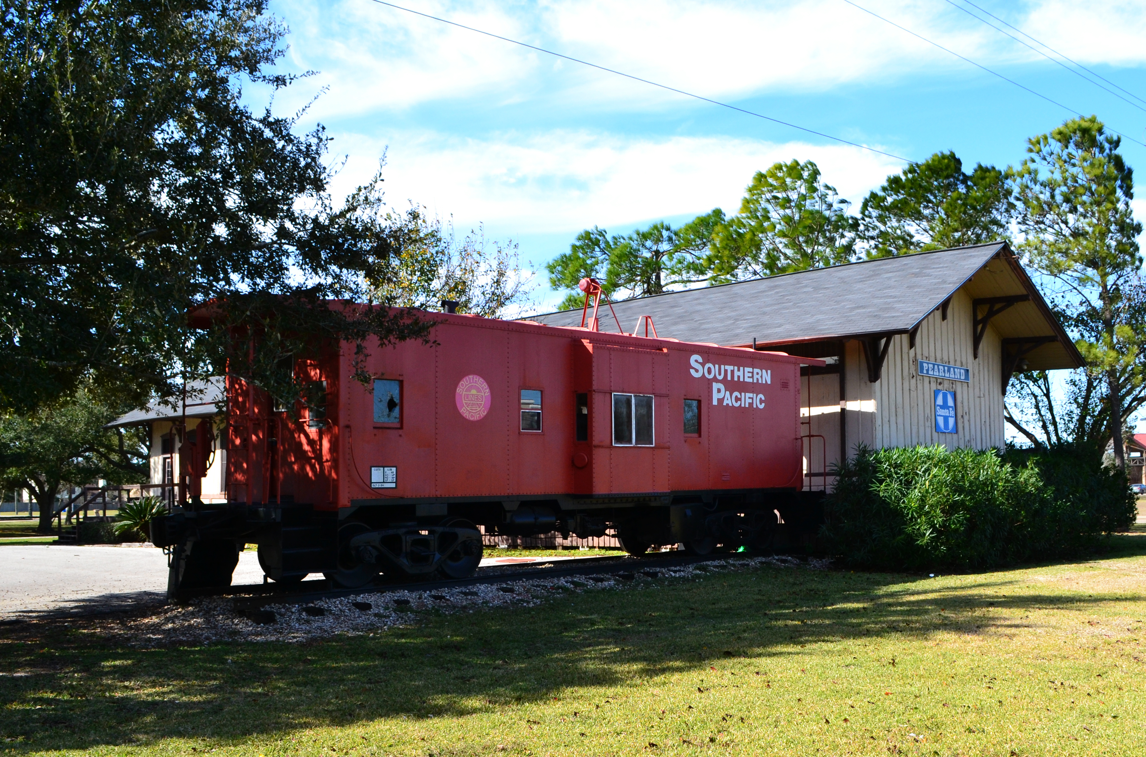 Historic Gulf, Colorado and Santa Fe Railroad train depot in Pearland, Texas.